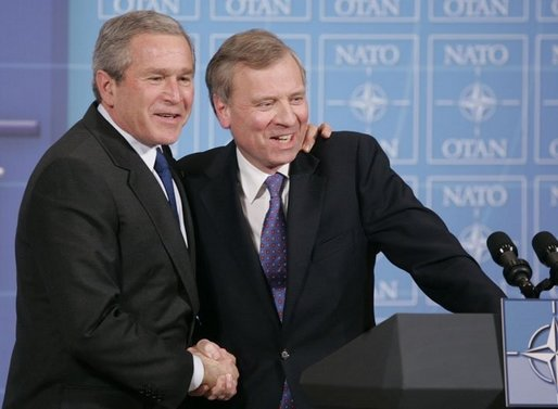 President George W. Bush is welcomed by NATO Secretary General Jaap de Hoop Scheffer during a news conference at NATO Headquarters in Brussels.